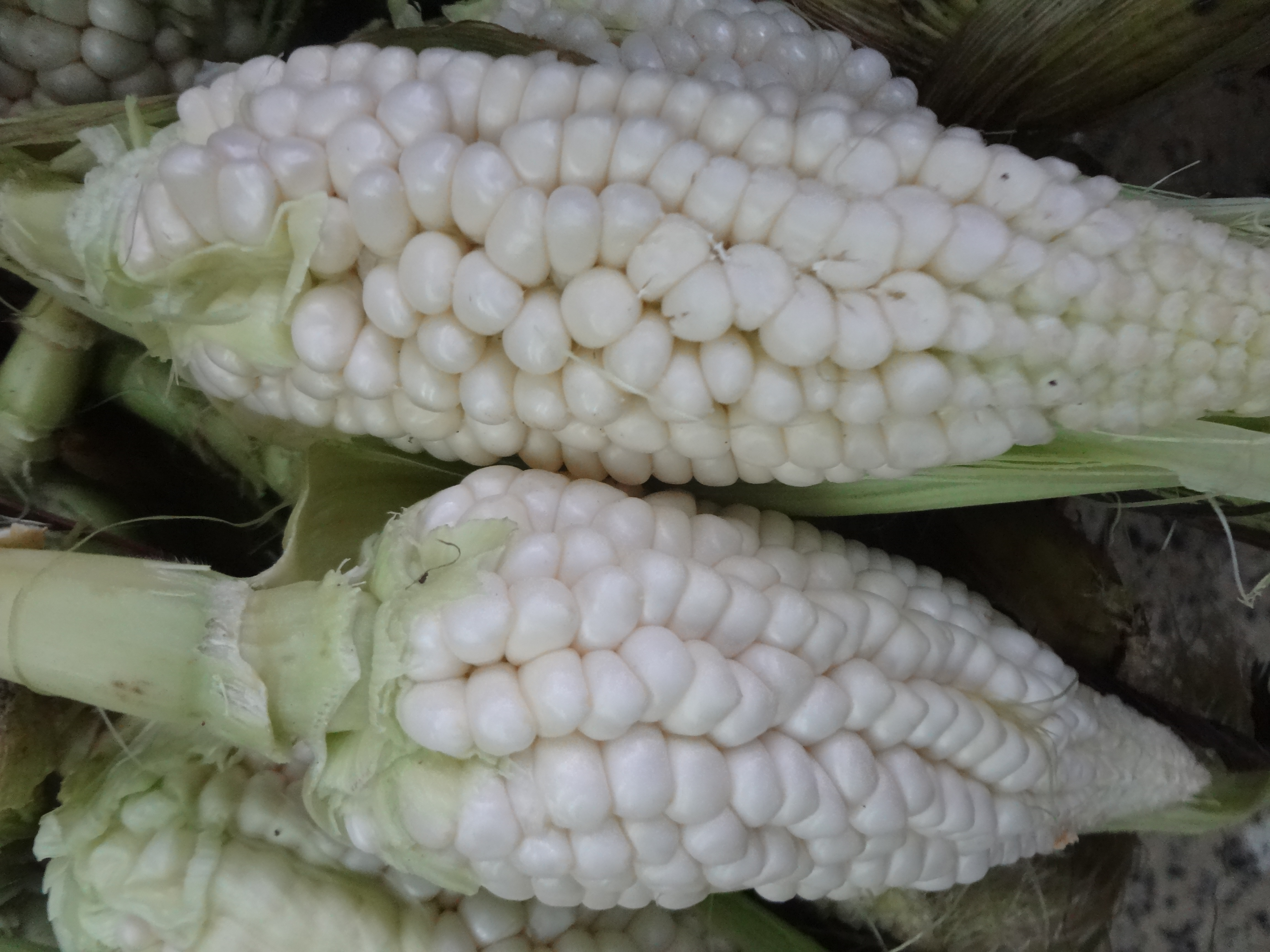 (Choclo) from Quito Photography by David Adam Kess